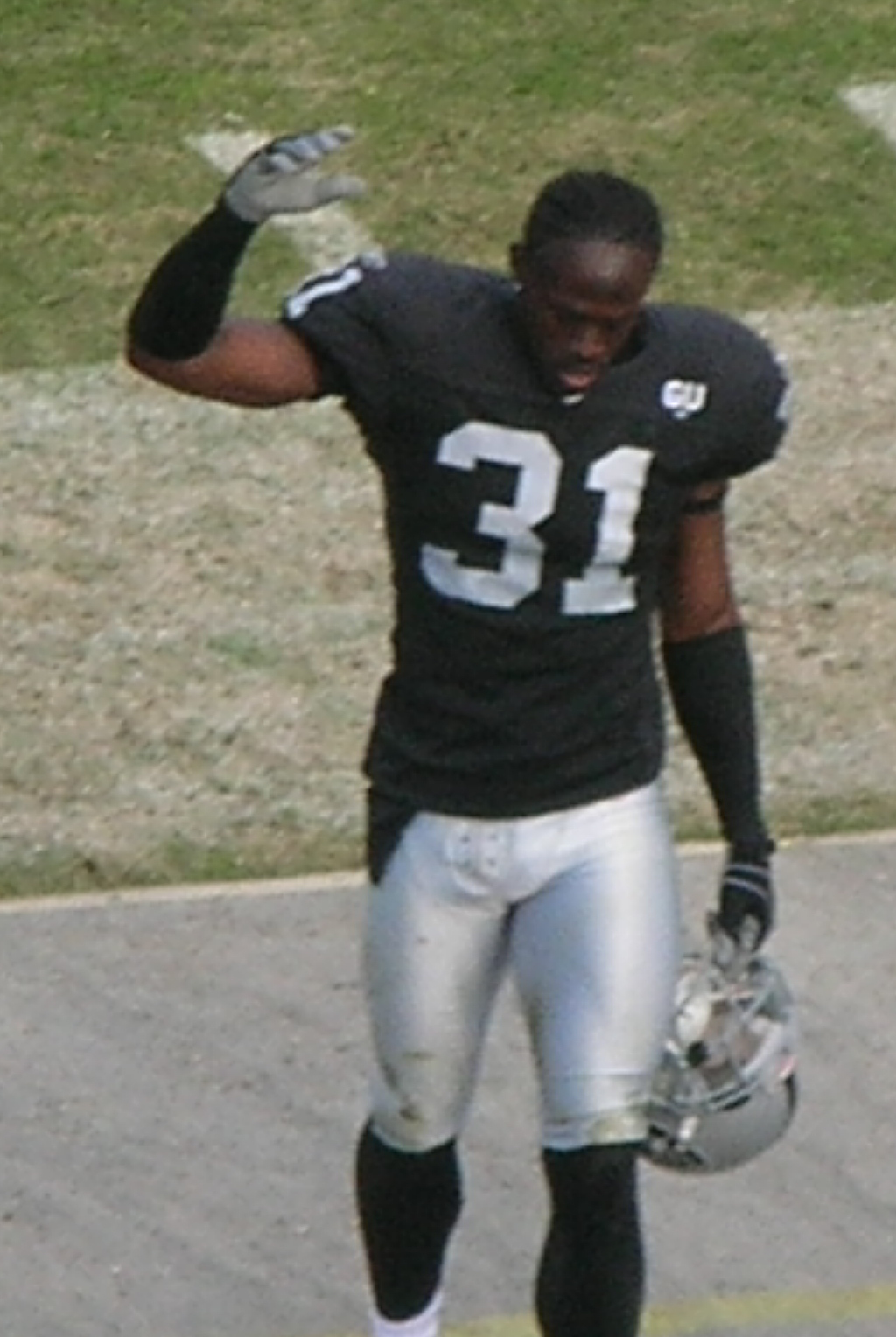 Oakland Raiders safety Hiram Eugene at a home game against the Atlanta Falcons. The Falcons won 24-0.